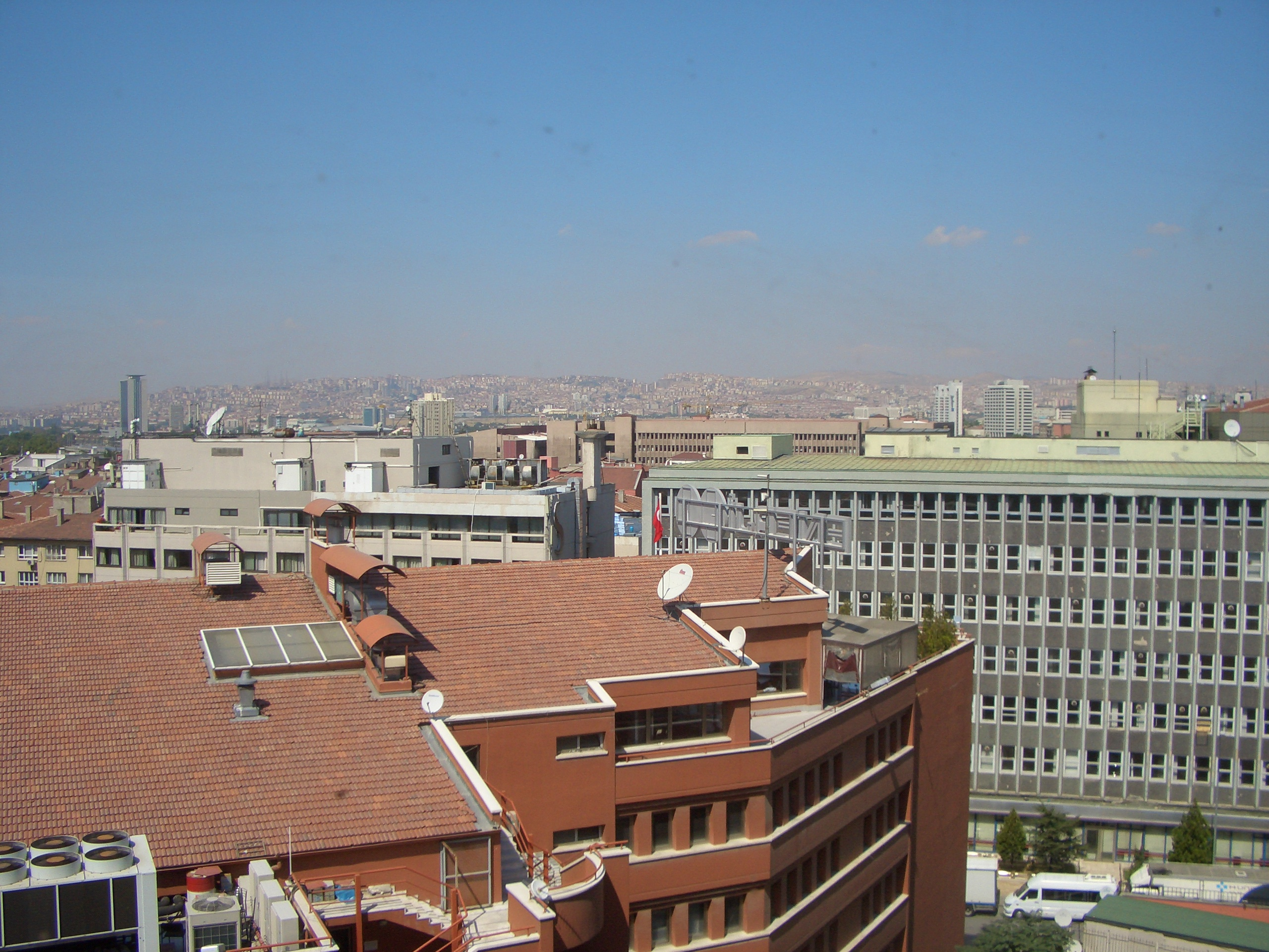 View of Sıhhıye, Ankara.